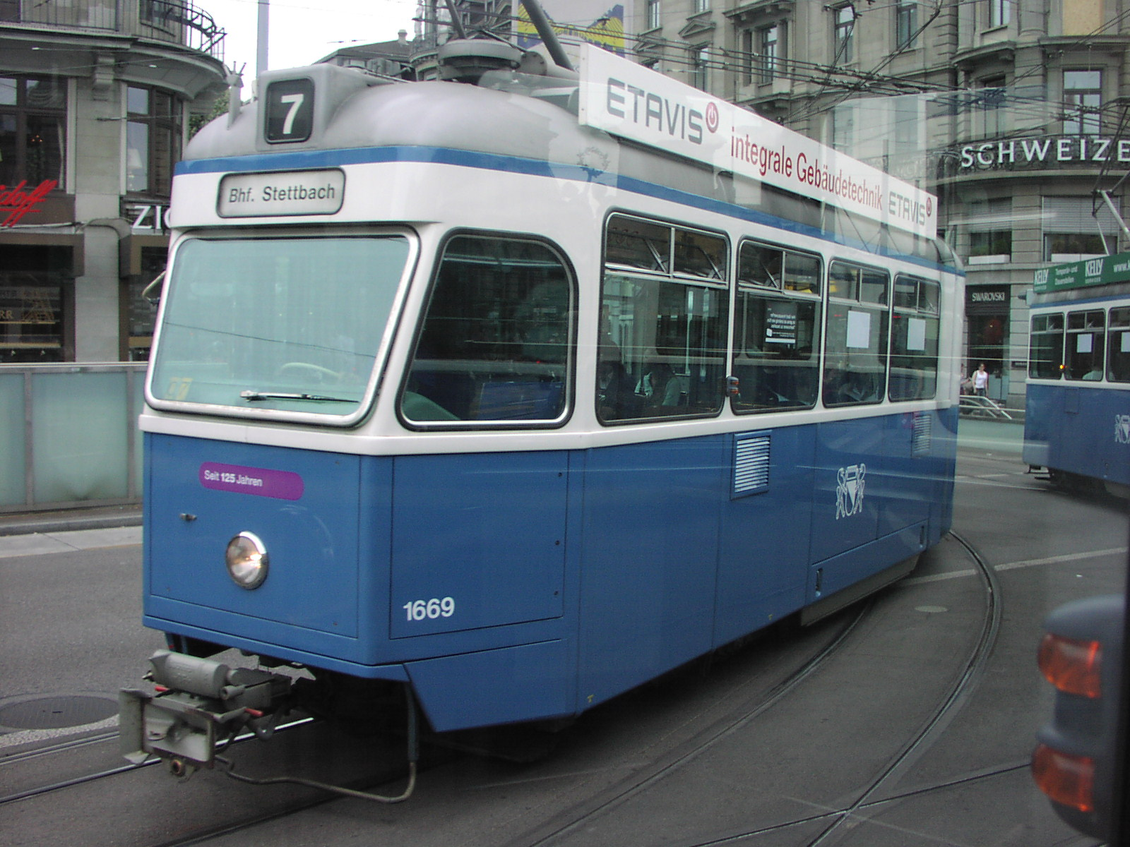 Old tram in Zurich at the corner of Bahnhofplatz and Bahnhofstrasse (Switzerland)